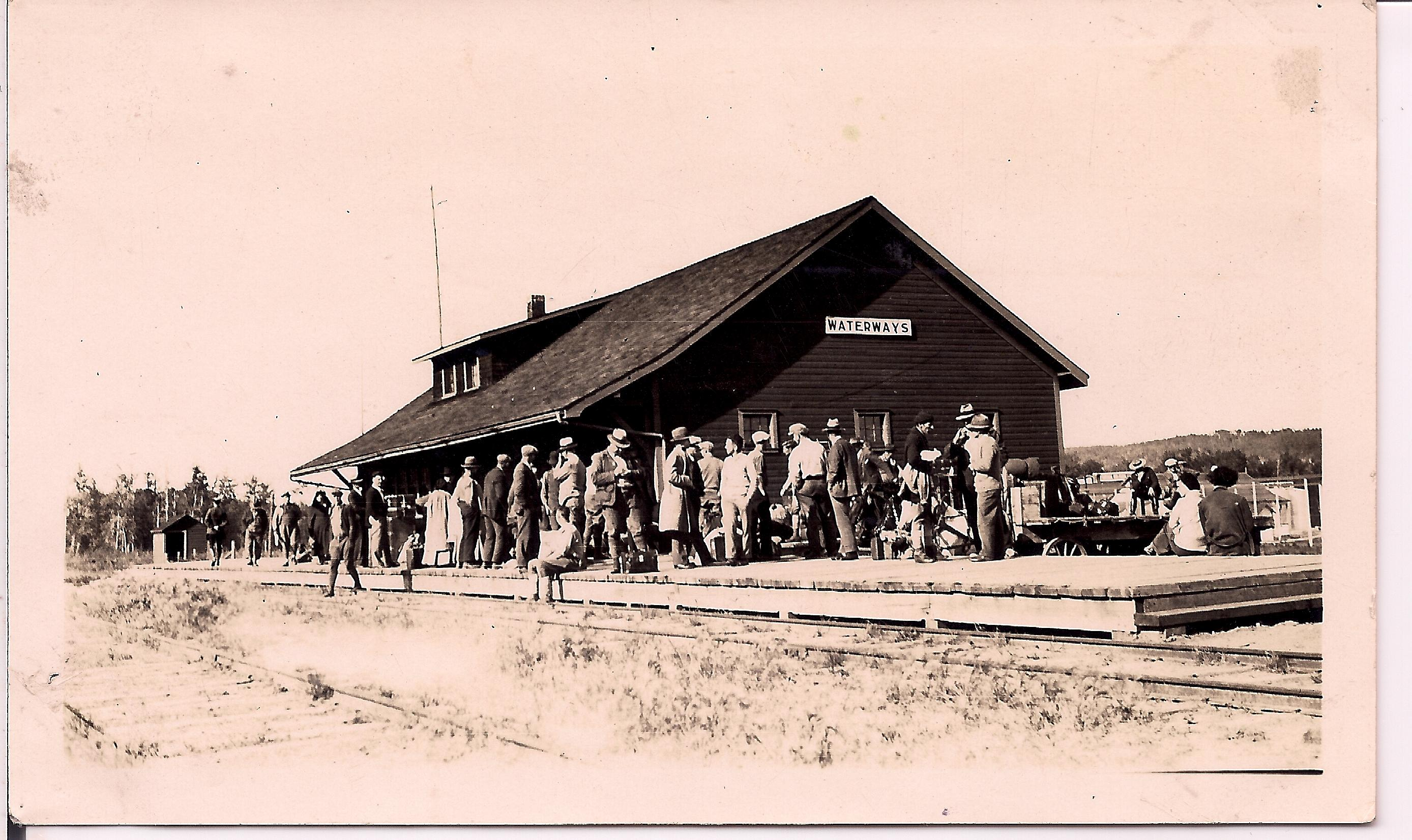 Waterways, Alberta, ca. 1920s. From the Charles Eymundson fonds, PR2012.0927/538.